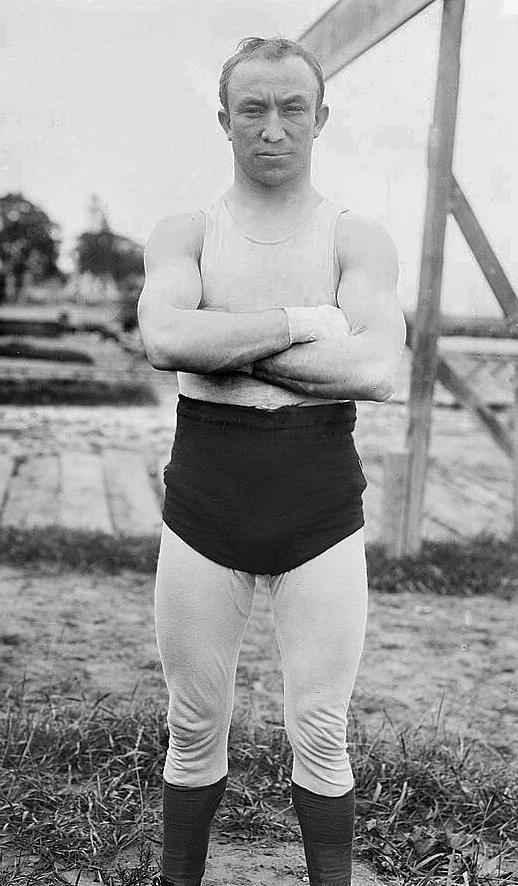 Johnny Coulon Bain News Service,, publisher. Johnny Coulon [between 1910 and 1915] 1 negative : glass ; 5 x 7 in. or smaller. Notes: Title from unverified data provided by the Bain News Service on the negatives or caption cards. Forms part of: George Grantham Bain Collection (Library of Congress). Format: Glass negatives. Repository: Library of Congress, Prints and Photographs Division, Washington, D.C. 20540 USA, General information about the Bain Collection is available at Persistent URL: Call Number: LC-B2- 2522-10